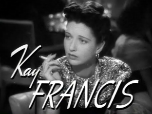 Screenshot of Kay Francis from the trailer for the film The Feminine Touch.